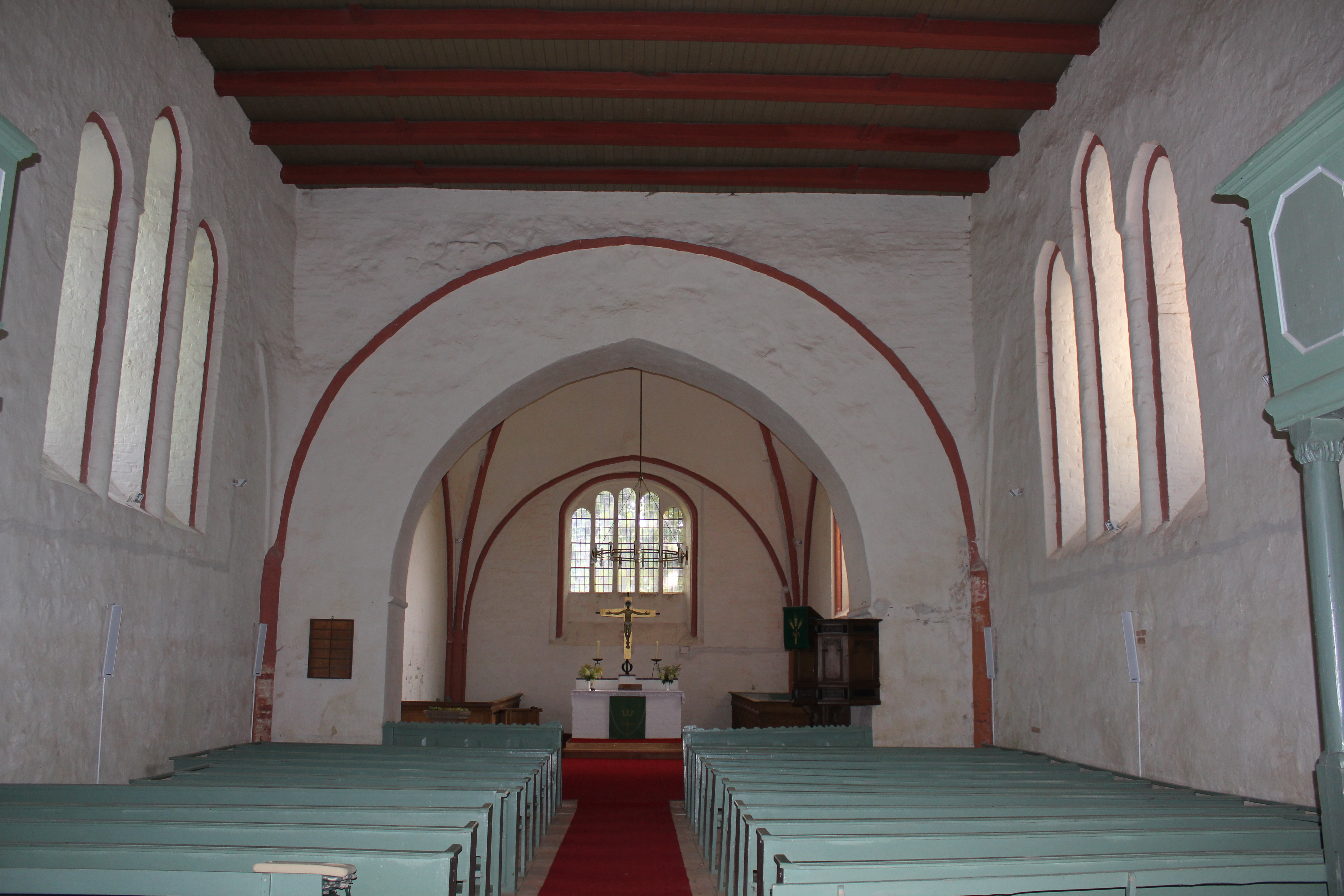 Choir of the Church in Unter Bruez, Germany